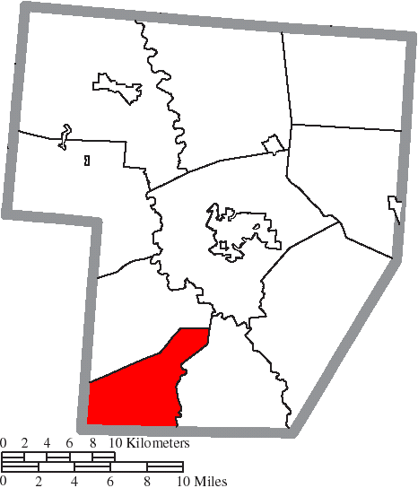 Map of the municipal and township boundaries of Fayette County, Ohio, United States, as of the 2000 census, with the location of Green Township highlighted. Township borders are shown only in unincorporated areas in order to differentiate incorporated and unincorporated areas more clearly.